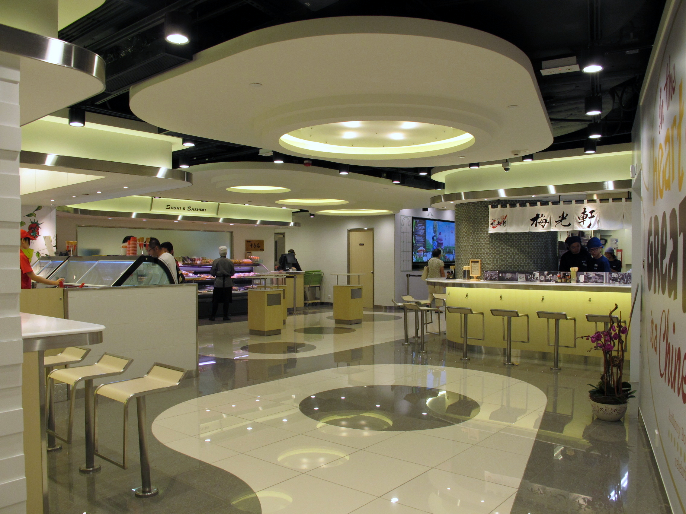 Jasons Food & Living Food Court